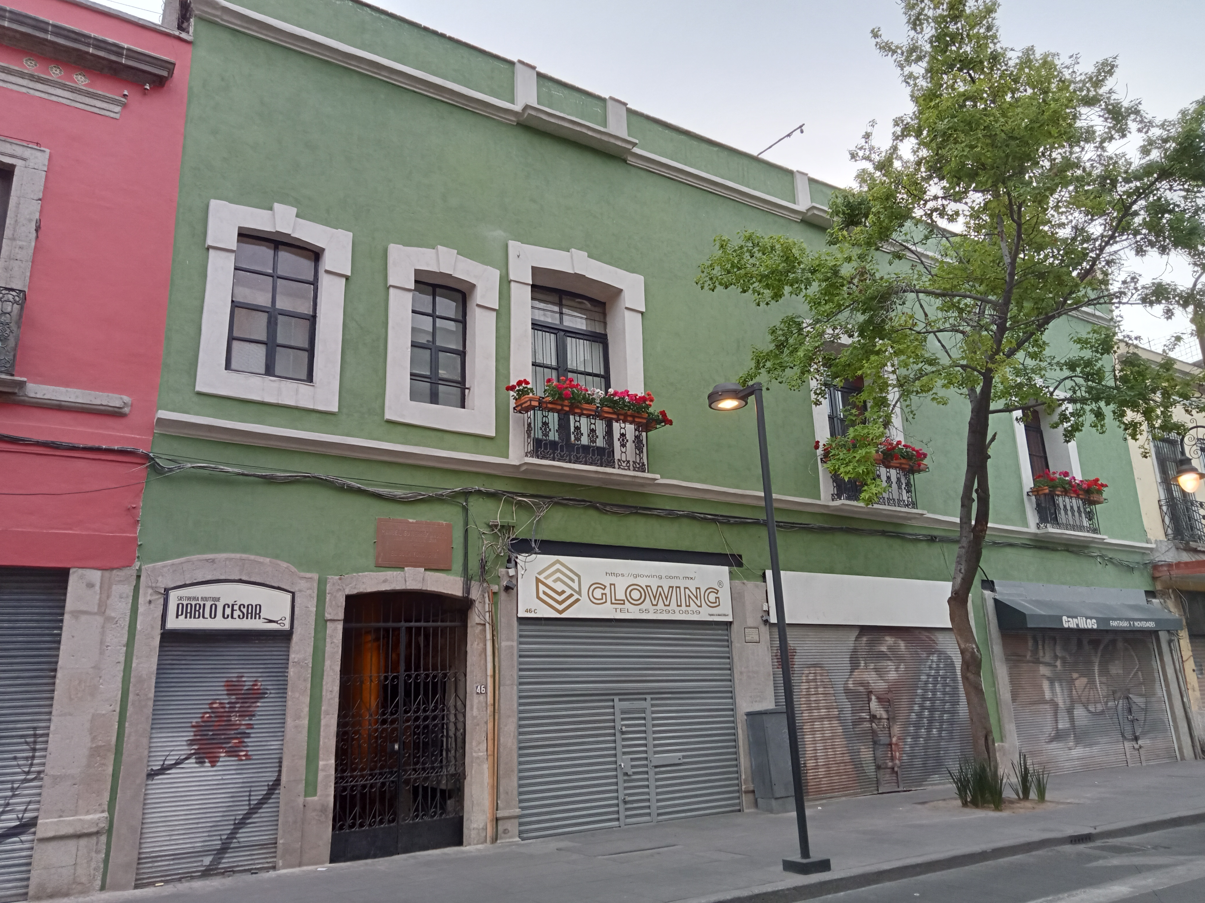 Casa de república de Brasil 46 en el centro histórico de la ciudad de México